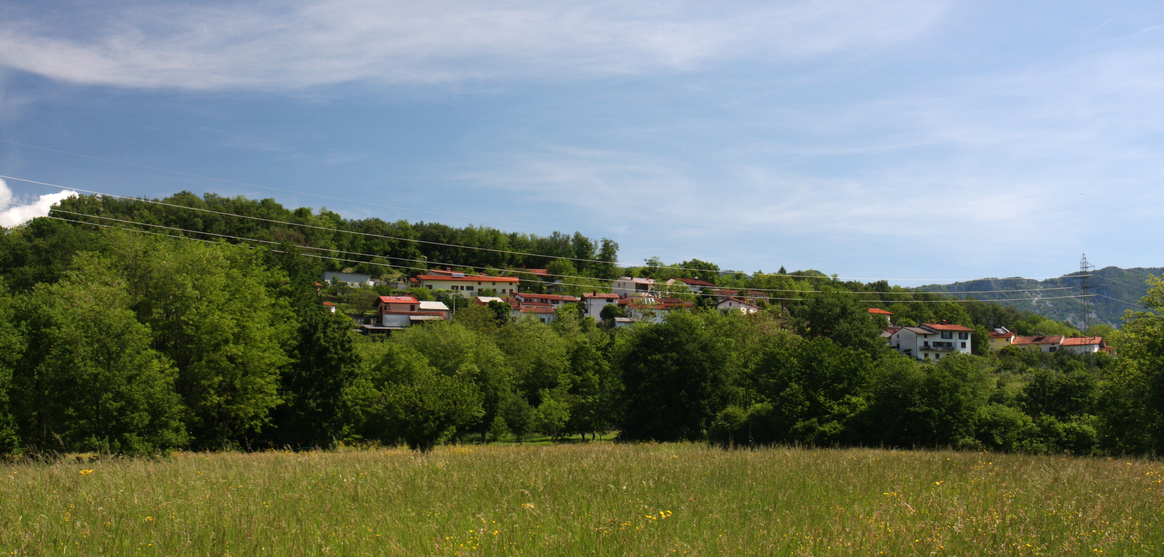 Eastern part of the village Plače in Vipava valley, Slovenia